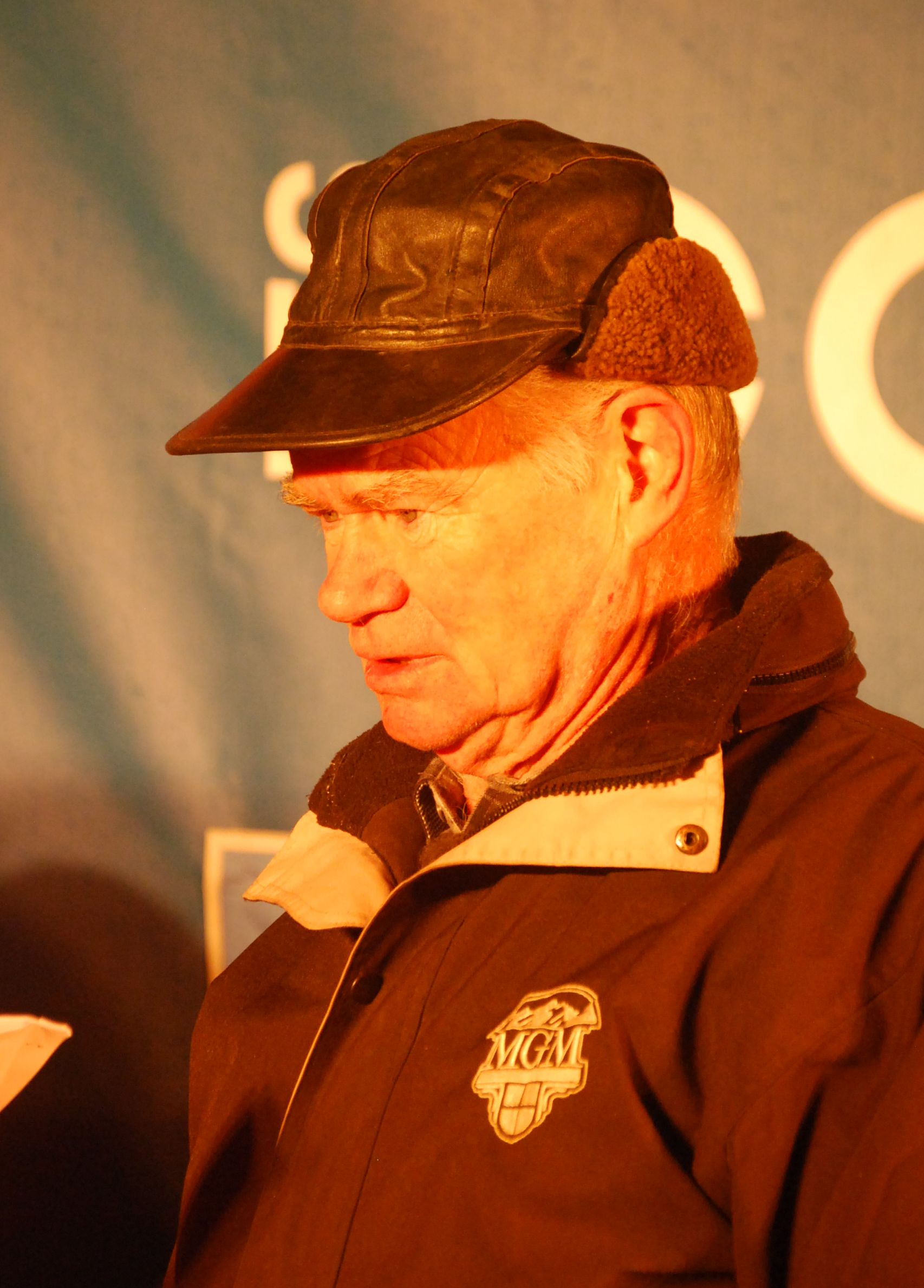 Robert Rey, during a ceremony in honor of Coline Mattel to return Contamines with his Olympic medal, with the reminder list of the champions Contamines, including Régis Rey and Robert Rey.